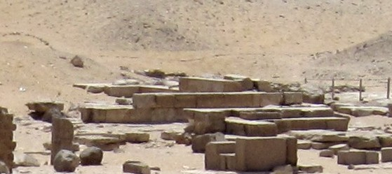 Remains of the Satellite-Pyramid of the pyramid complex of Unas